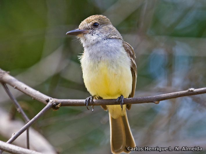 Myiarchus swainsoni at Mata do Quilombo - Barão Geraldo (Campinas, São Paulo, Brazil)